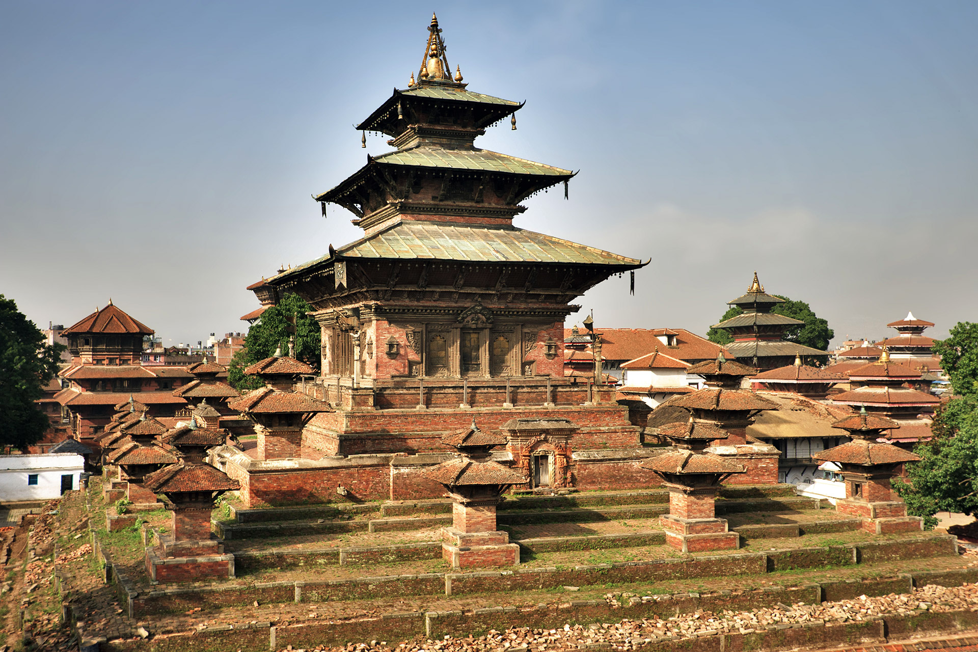 A view of Taleju Bhawani temple and spectacular architectures of Kathmandu Durbar Square surroundings.The Kathmandu Durbar Square is the plaza in front of the old royal palace of the then Kathmandu Kingdom. It is one of three Durbar (royal palace) Squares in the Kathmandu Valley in Nepal, all of which are UNESCO World Heritage Sites. It is built in early as the Licchavi period in the third century. नेपाली: काठमाडौं दरवार क्षेत्र मल्लकालिन दरबार क्षेत्र हो । यसको निर्माण तेस्रो शताब्दीको लिच्छवी कालमा भएको हो ।